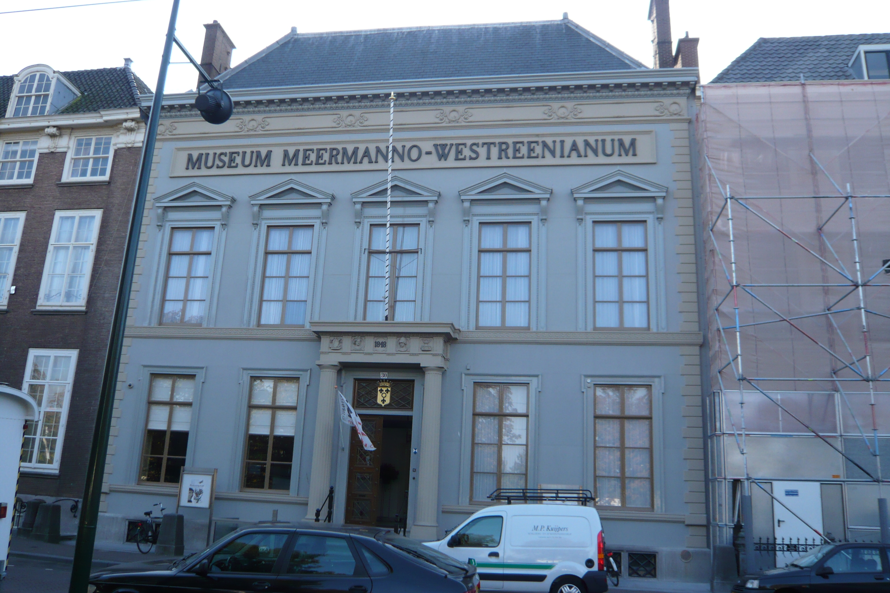 Meermanno museum on the Princessegracht in the Hague.